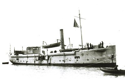 HMS Raven